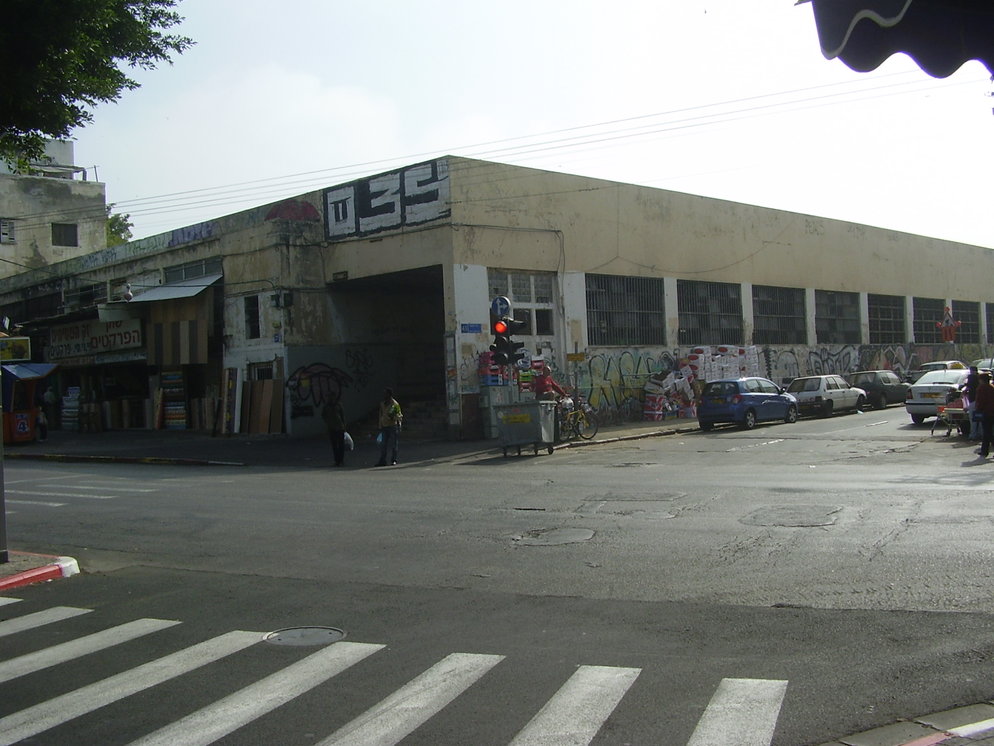 aliya market in tel aviv